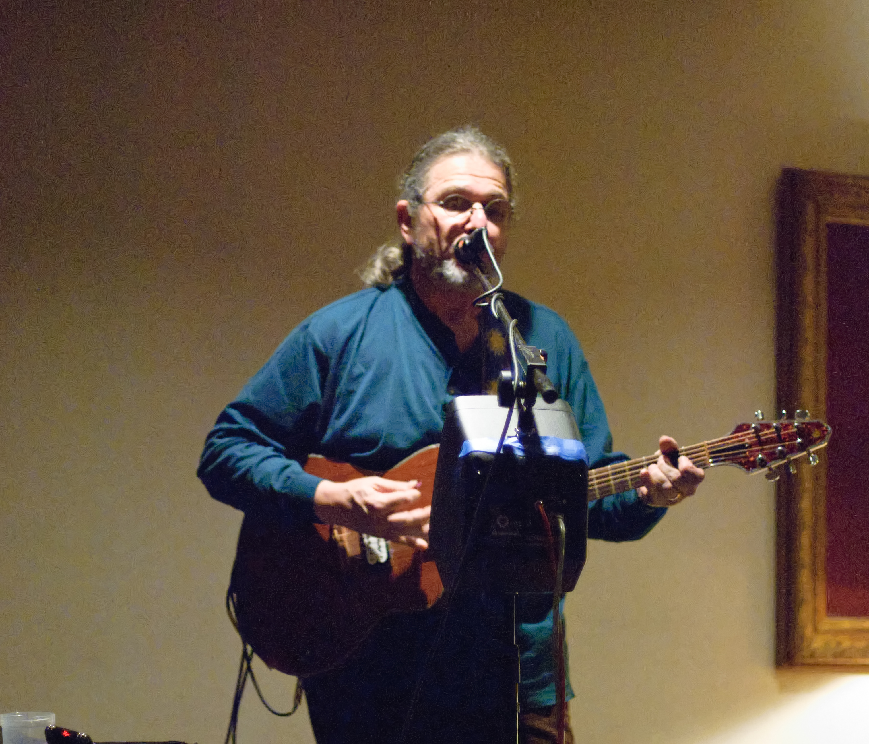 David Gans performing at the American Towers South Community Room, SLC, Utah, on March 2, 2009.